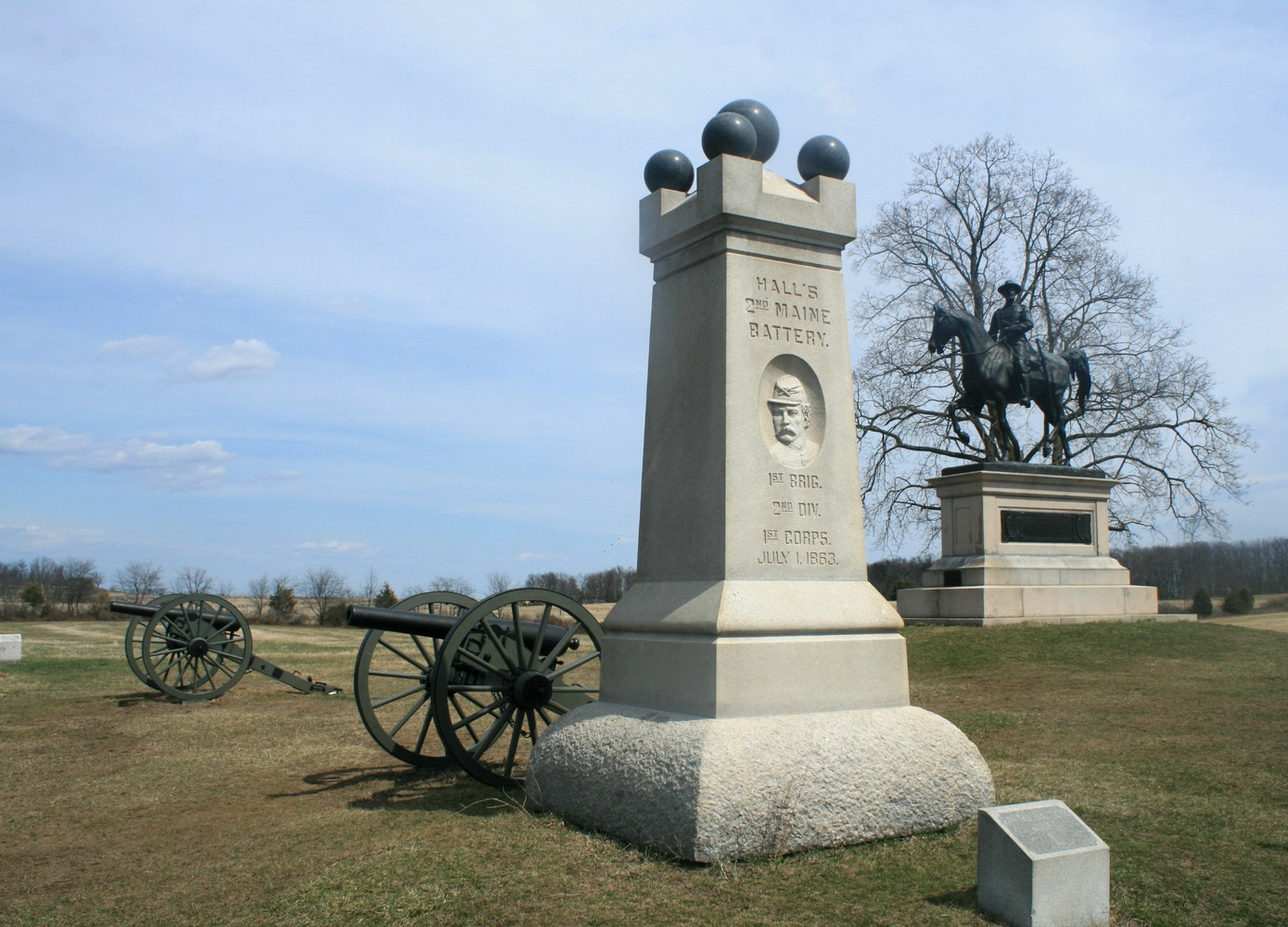 The monument to the Second Maine Battery is west of Gettysburg on Chambersburg Pike at its intersection with Stone Avenue. The Second Maine Battery was commanded at the Battle of Gettysburg by Captain James A. Hall. It brought 127 men to the field serving six Ordnance Rifles, and lost 18 men wounded.